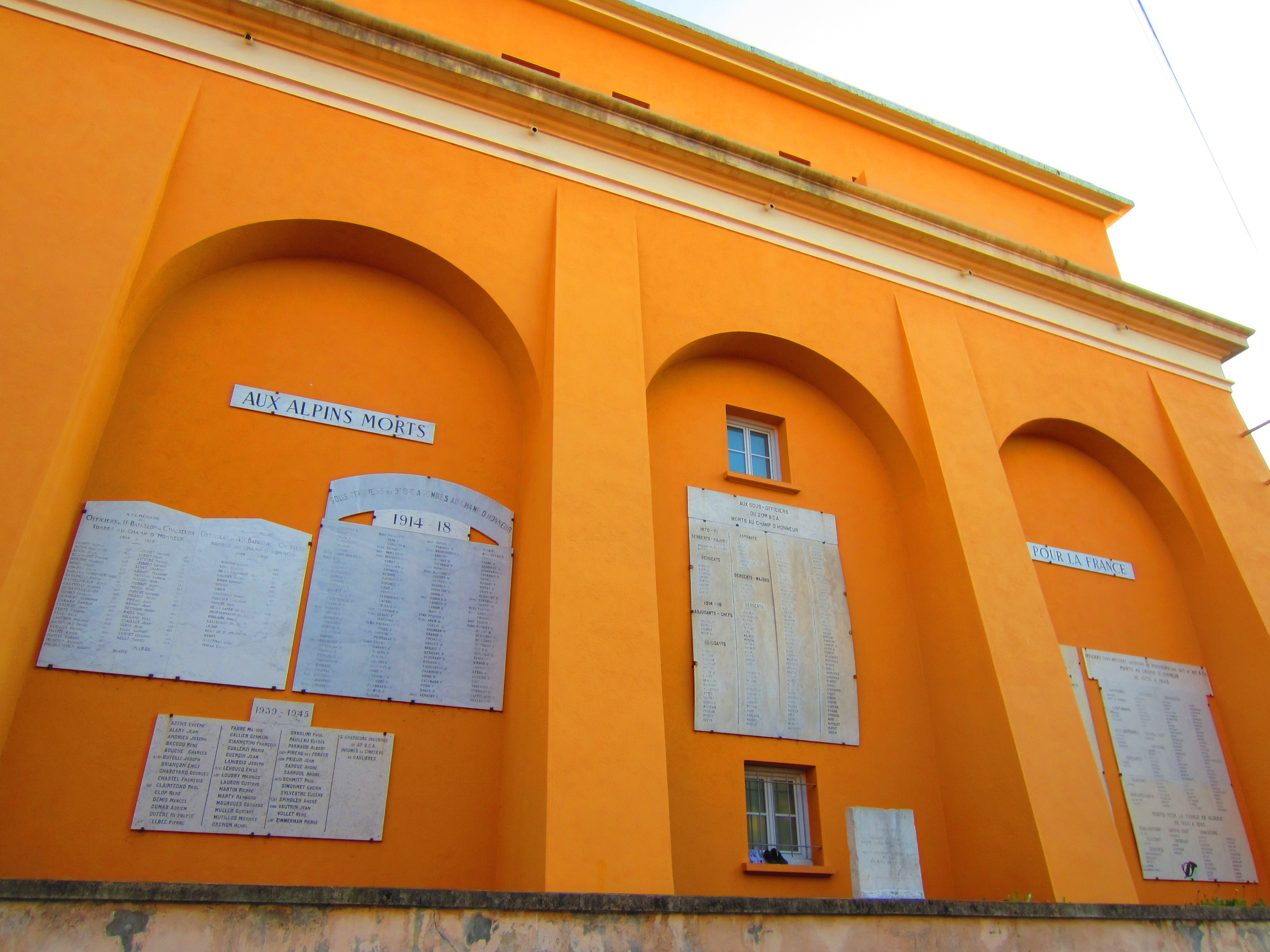 memorial war police quarters Antibes